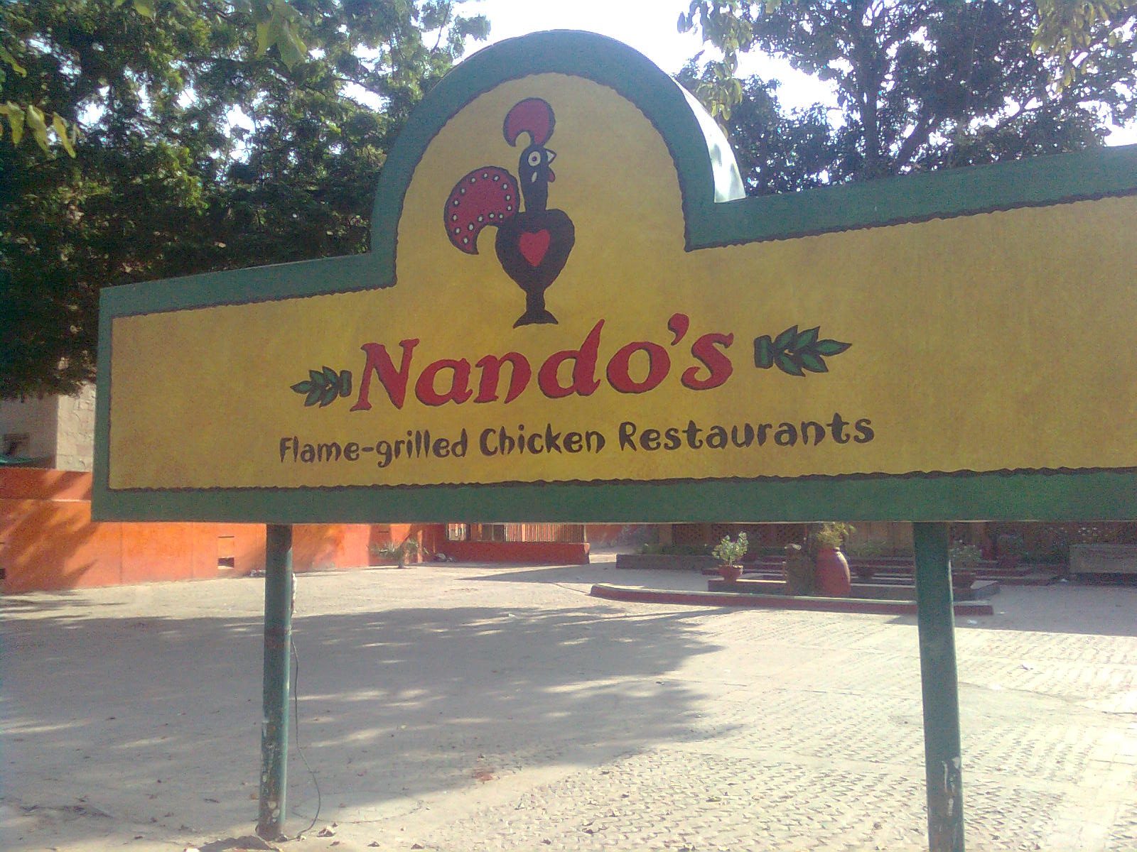 A view of Nando's at M.M Alam Road Gulberg, Lahore.